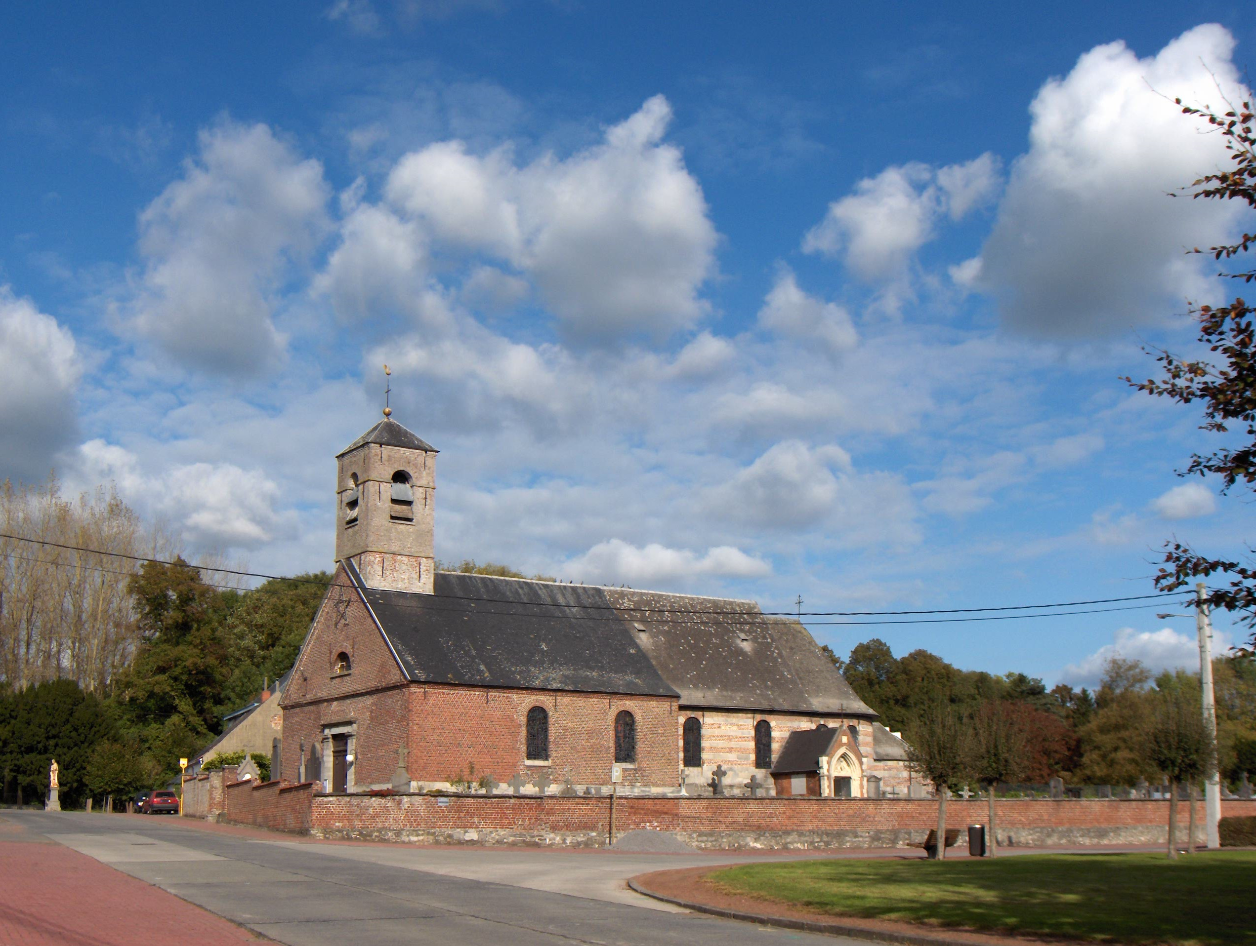 Depicted place: Q57006470